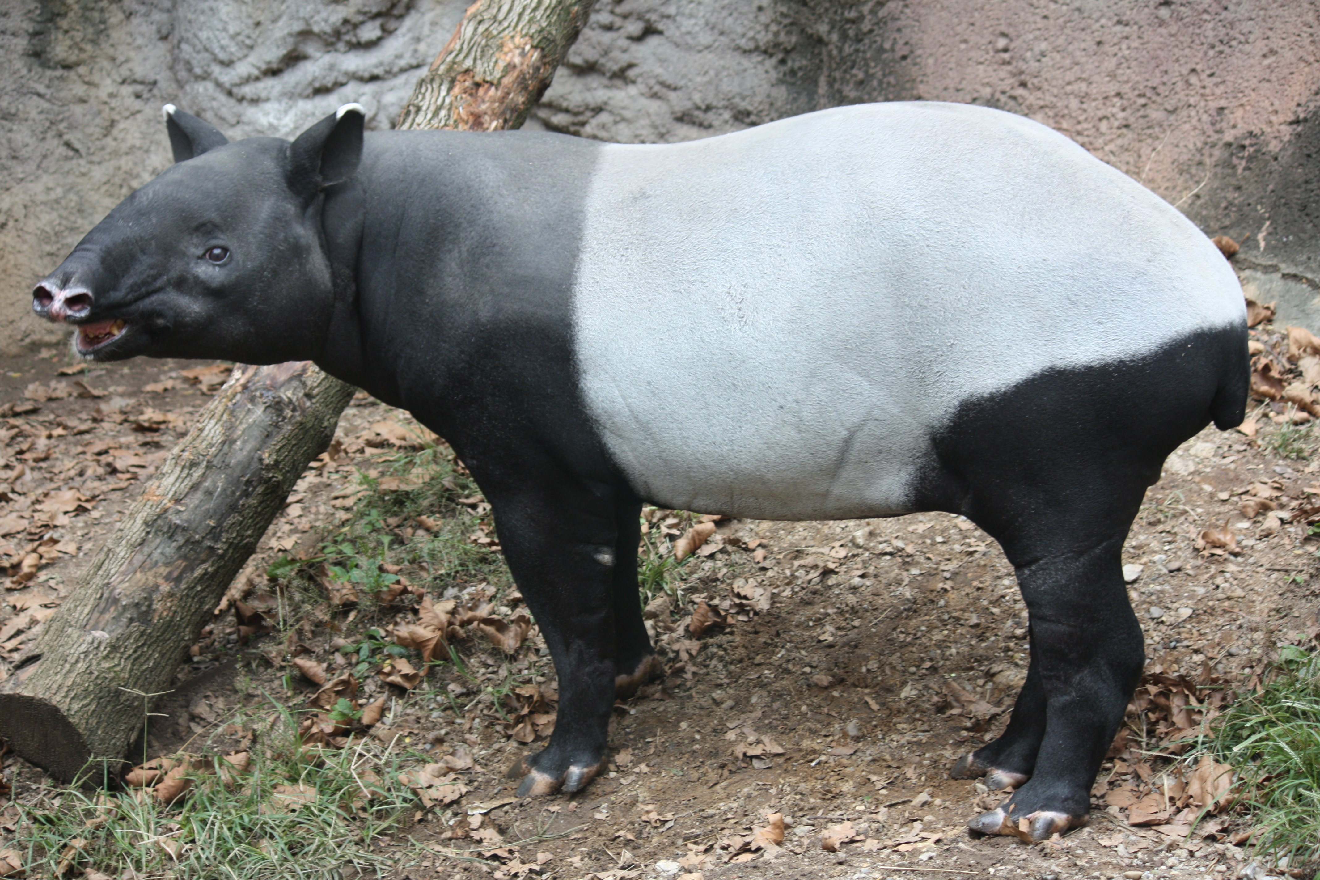 Malayan Tapir Tapirus indicus at Louisville Zoo